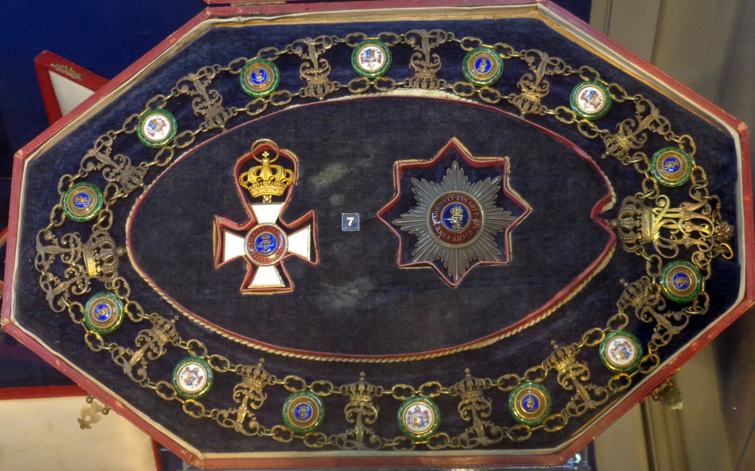 House and Merit Order of Peter Frederick Louis, insignias of Grand Cross, 1863-1865. Grand Duchy of Oldenburg. The exhibition of the Tallinn Museum of Orders of Knighthood, Estonia.